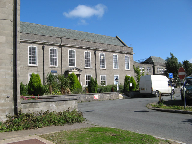 Ysbyty Abergele Hospital Originally built as a sanatorium, the site was purchased by Manchester City Council in 1914 and expanded to provide specialist accommodation for children suffering from tuberculosis. The clean Welsh air was beneficial, but visiting was an ordeal!